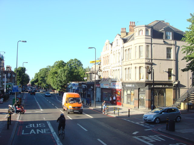 A23, Brixton Hill The road on the right where the silver car is waiting is Arodene Road